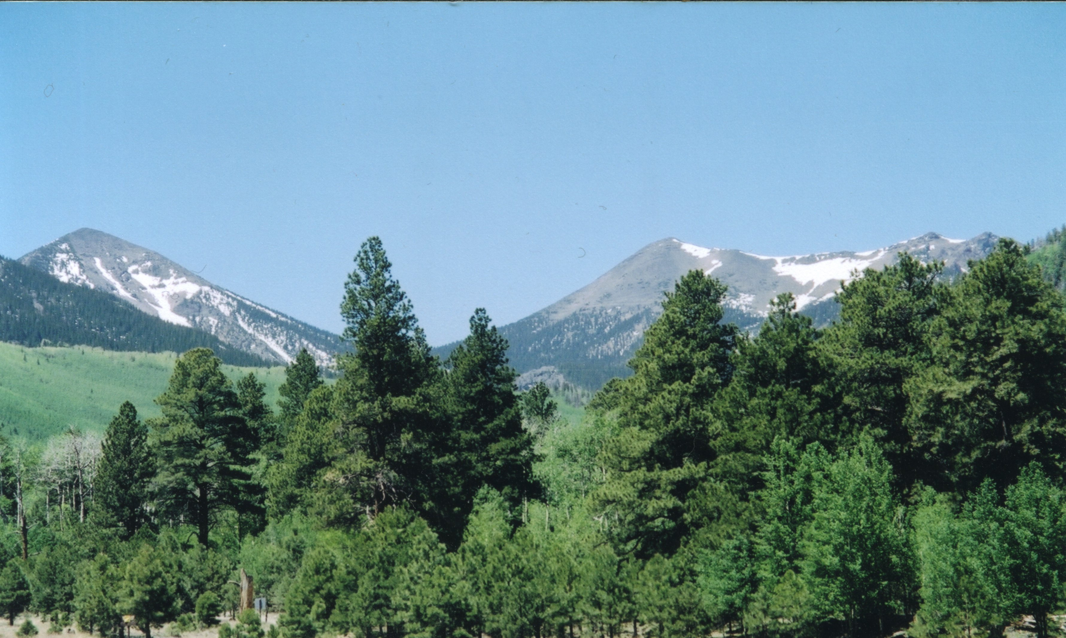 Inner Basin of San Francisco Peaks taken in June. Humphreys Peak at far right. Taken by me. (In center, Agassiz Peak, at left, Fremont Peak (Arizona).)